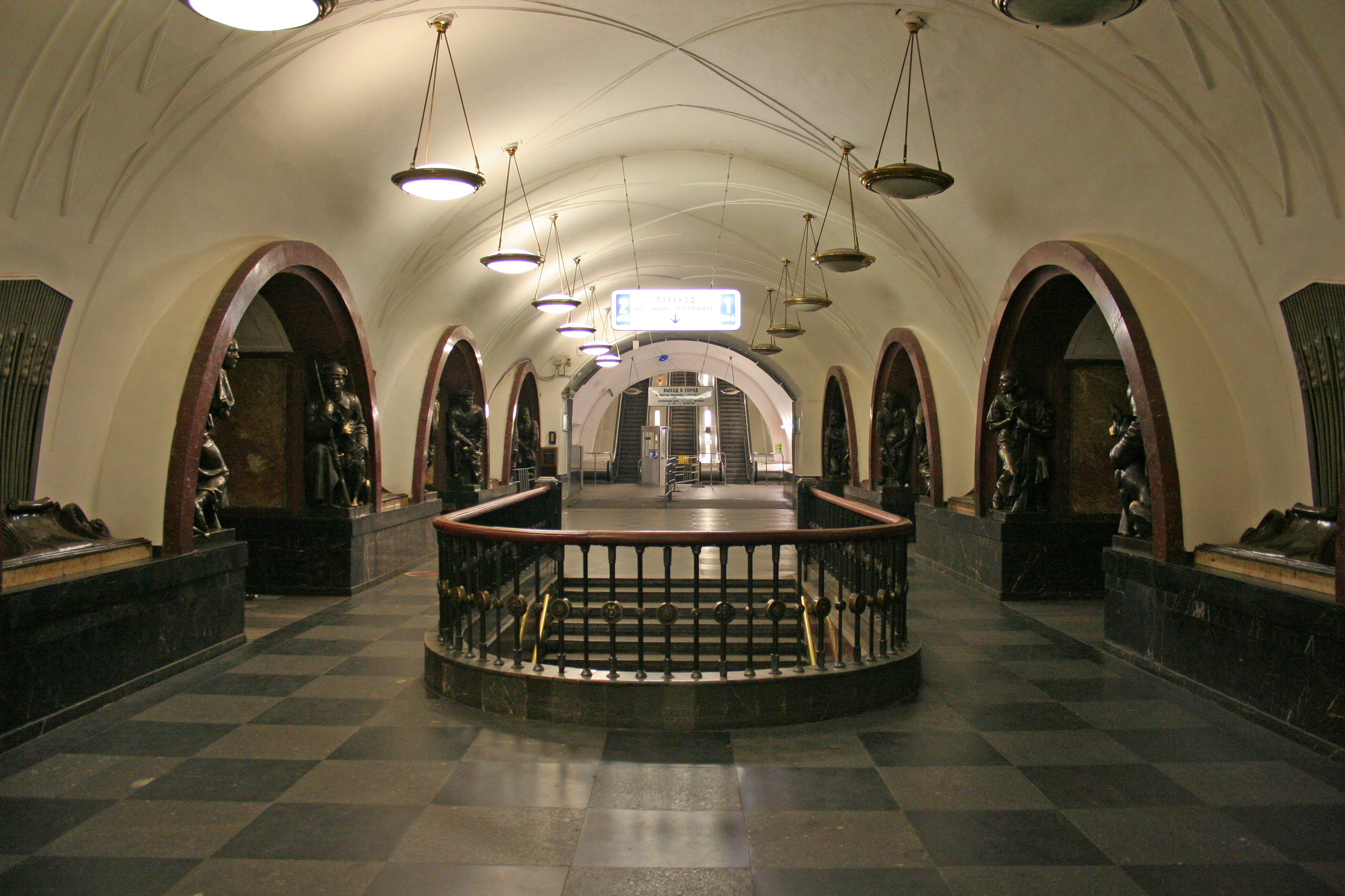 Ploschad Revolyutsii station of Moscow Metro.